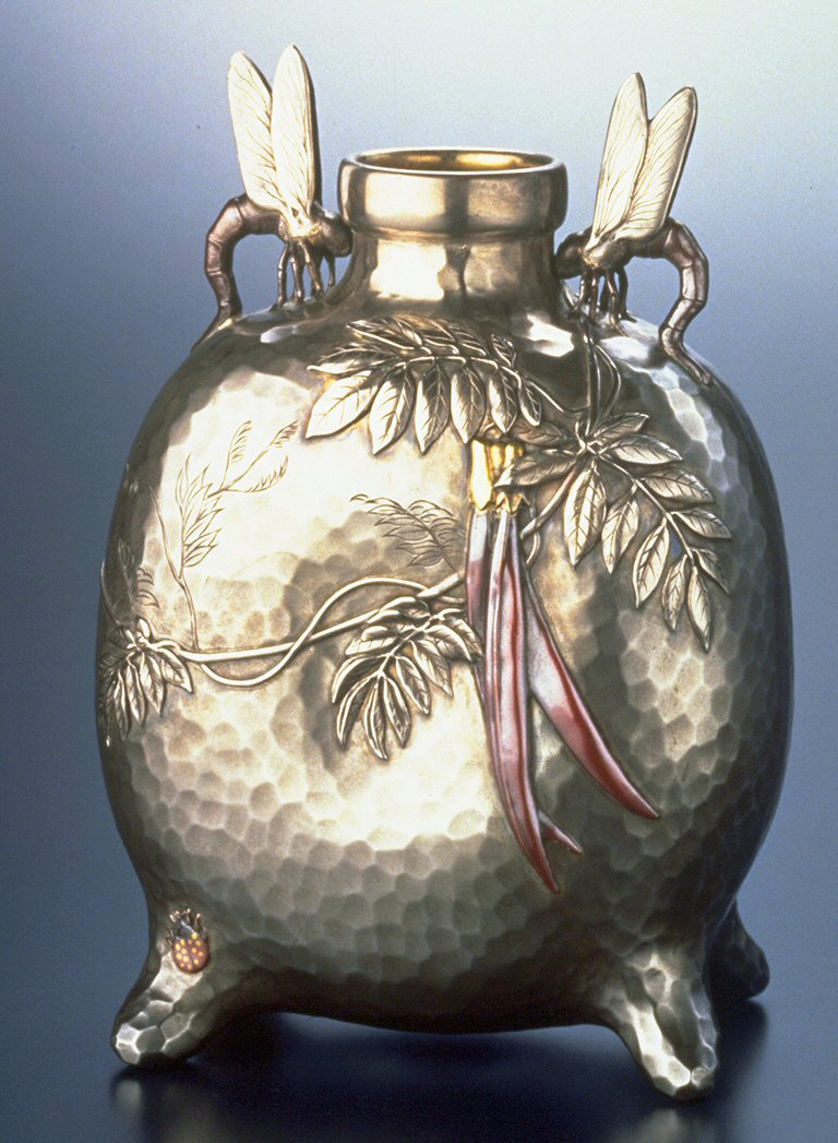 This vase with dragonfly handles and raised clematis vine motifs is rendered in silver with a "martelé" (hammered) surface and is decorated with colored metal encrustations. This combination of techniques recalls the work of Japanese craftsmen who once specialized in the production of swords and sword accessories. After visiting the Japanese display at the Paris Exposition Universelle of 1867, Edward Chandler Moore (1827-91), Tiffany's master silversmith, became a leading proponent of "Japonisme."